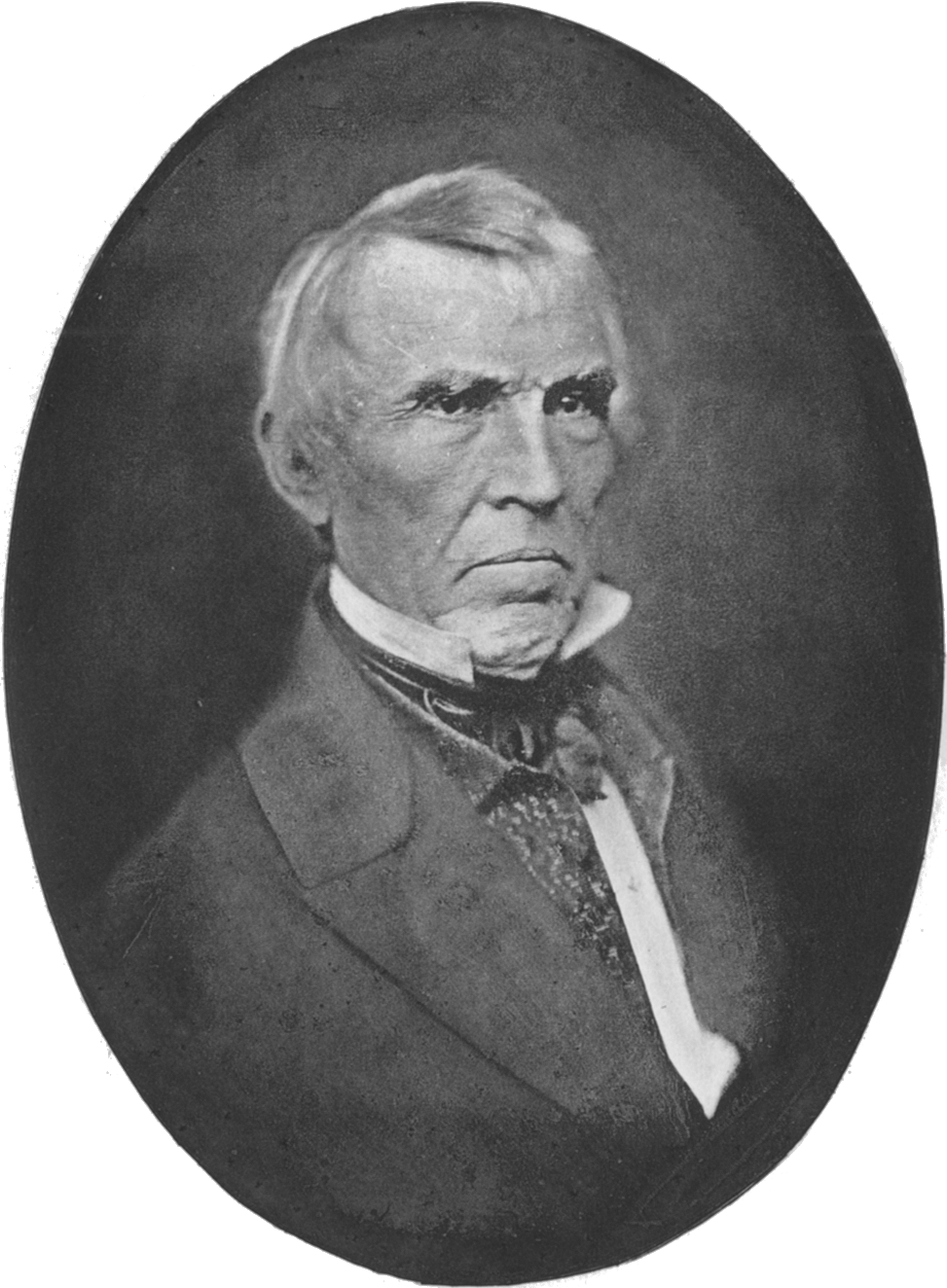 daguerreotype (in the possession of the Century Company) portrait of John J. Crittendon (1786-1863) United States Attorney General and Senator from Kentucky